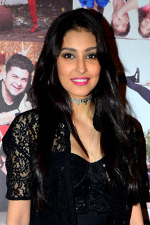 Navneet Kaur Dhillon graces the launch of Dabboo Ratnani’s Calendar 2018, Jan 18.